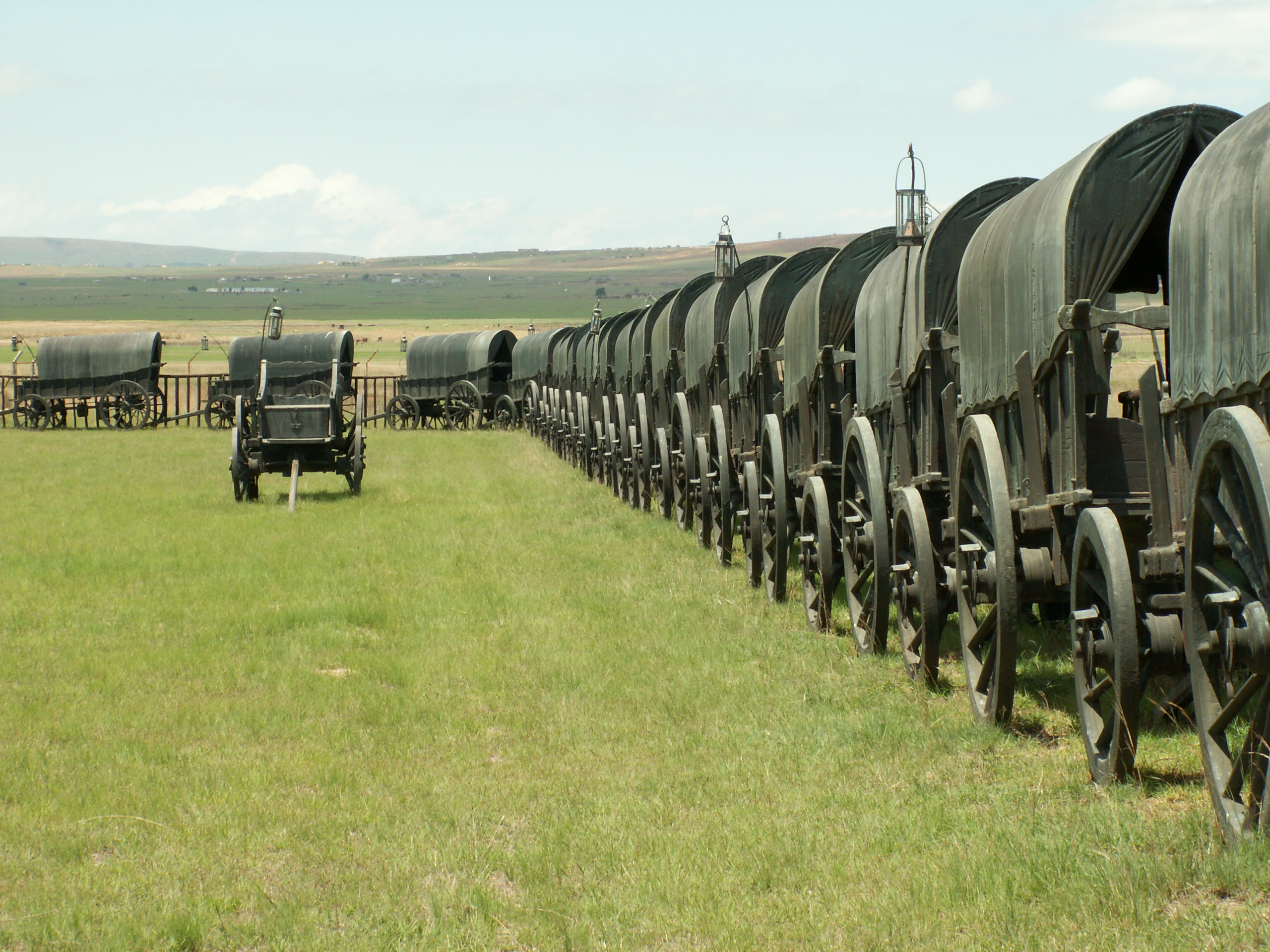 The ceremonial copper clad iron wagons at the Battle of Blood River Monument in Kwazulu-Natal